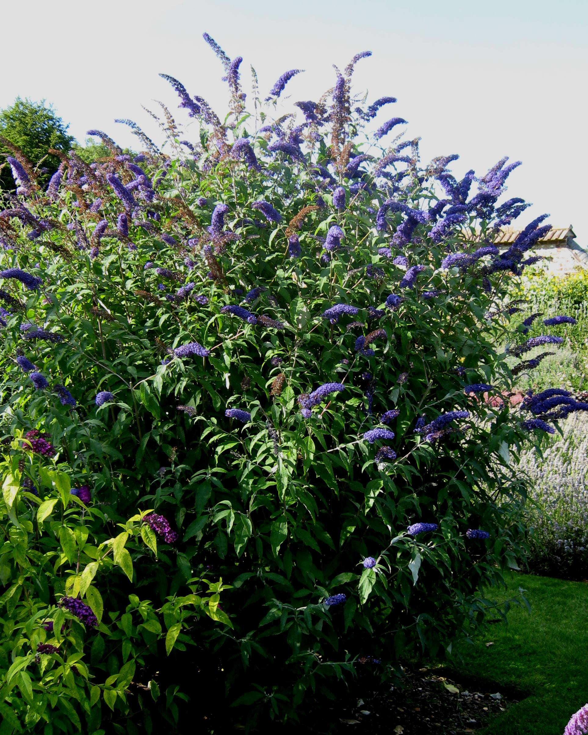 Photo of Buddleja cultivar taken at Longstock Park Nursery, UK, NCCPG national collection holder